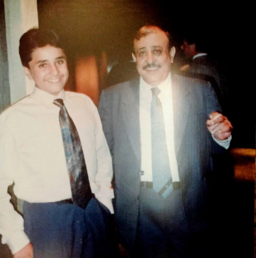 Emirati Businessman Abdul Latif Galadari with eldest son Suhail Galadari